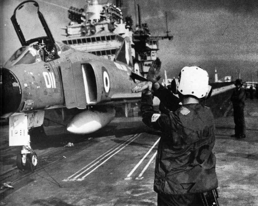 A Royal Navy McDonnell Douglas Phantom FG.1 (F-4K) of No. 892 Naval Air Squadron on the catapult of the U.S. aircraft carrier USS Saratoga (CVA-60). A detachment of four aircraft operated from the Saratoga in the fall of 1969 in the Mediterranean Sea.